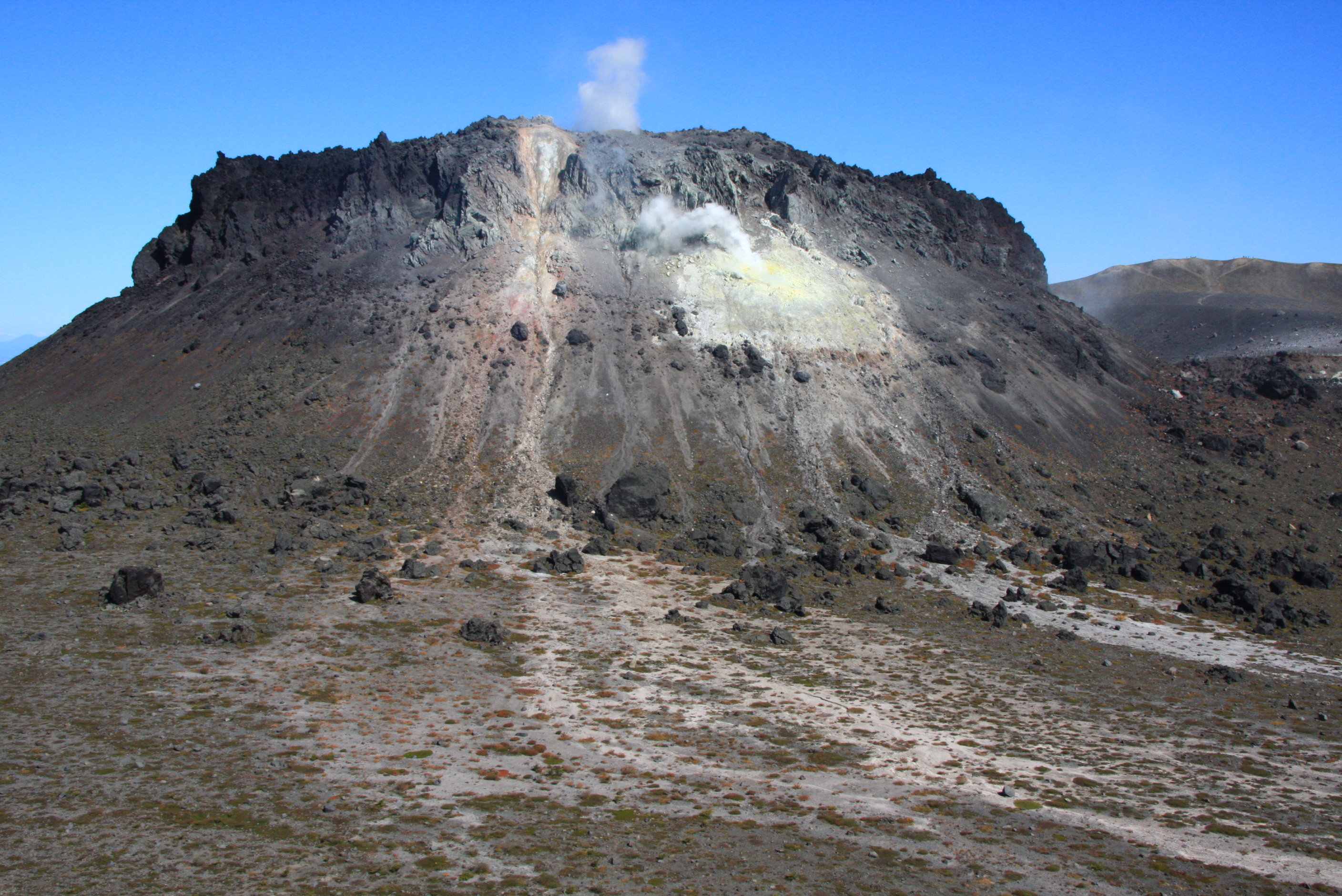 Lava dome of Tarumae volcano in Hokkaido, Japan.